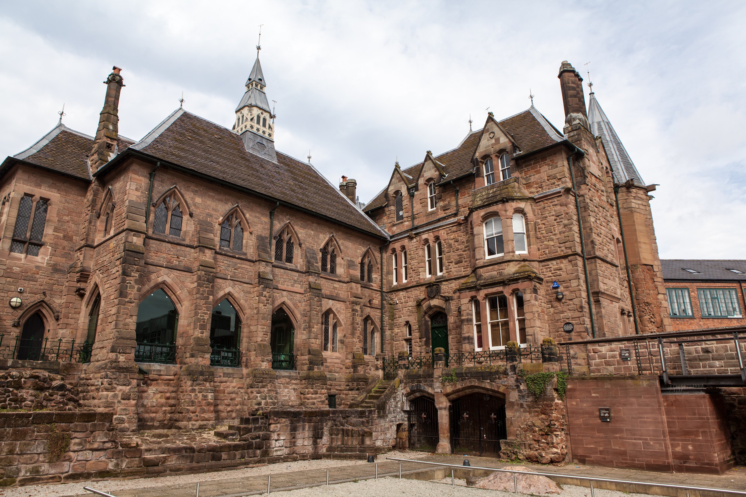 A7 - Old Bluecoat School in Coventry, UK